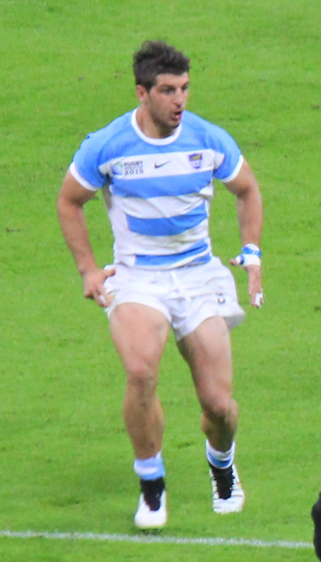 15-09 RWC New Zealand vs Argentina 069